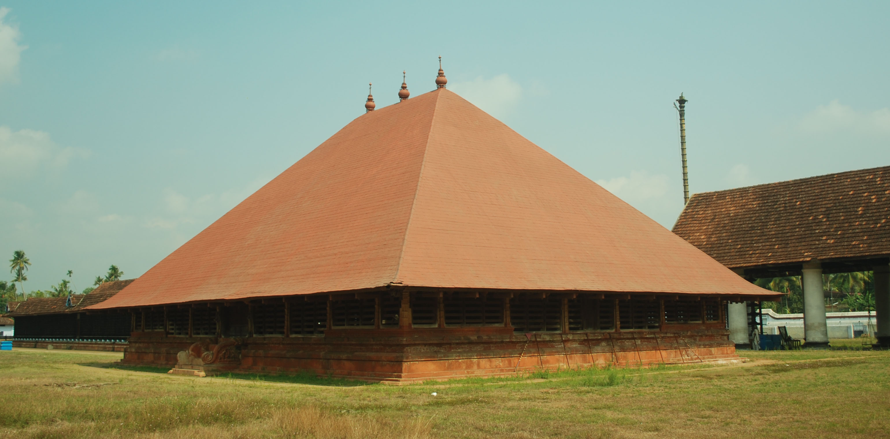 Koothambalam is attached to fourteen major temples of Kerala. Koothambalam is an auditorium to perform temple arts especially Koothu. The picture shows the Koothambalam of Irringalakuda (Sangama Grahmam) Koodal Manikya Temple and is considered as the second largest Koothambalam in size.